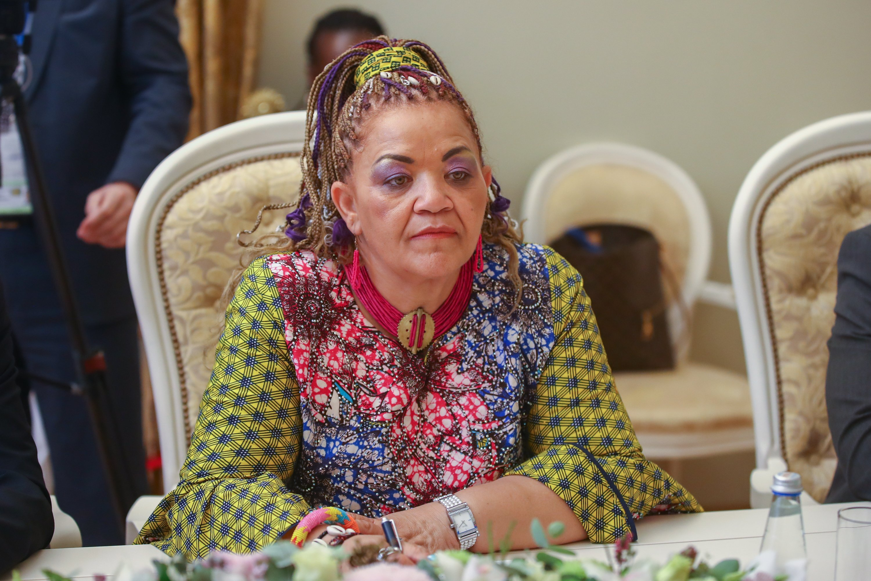 Chairperson of Namibia's National Council Margaret Mensah-Williams during a meeting with Chairwoman of Russia's Federation Council Valentina Matviyenko on the margins of the 137th Inter-Parliamentary Union (IPU) Assembly in Saint Petersburg, Russia.